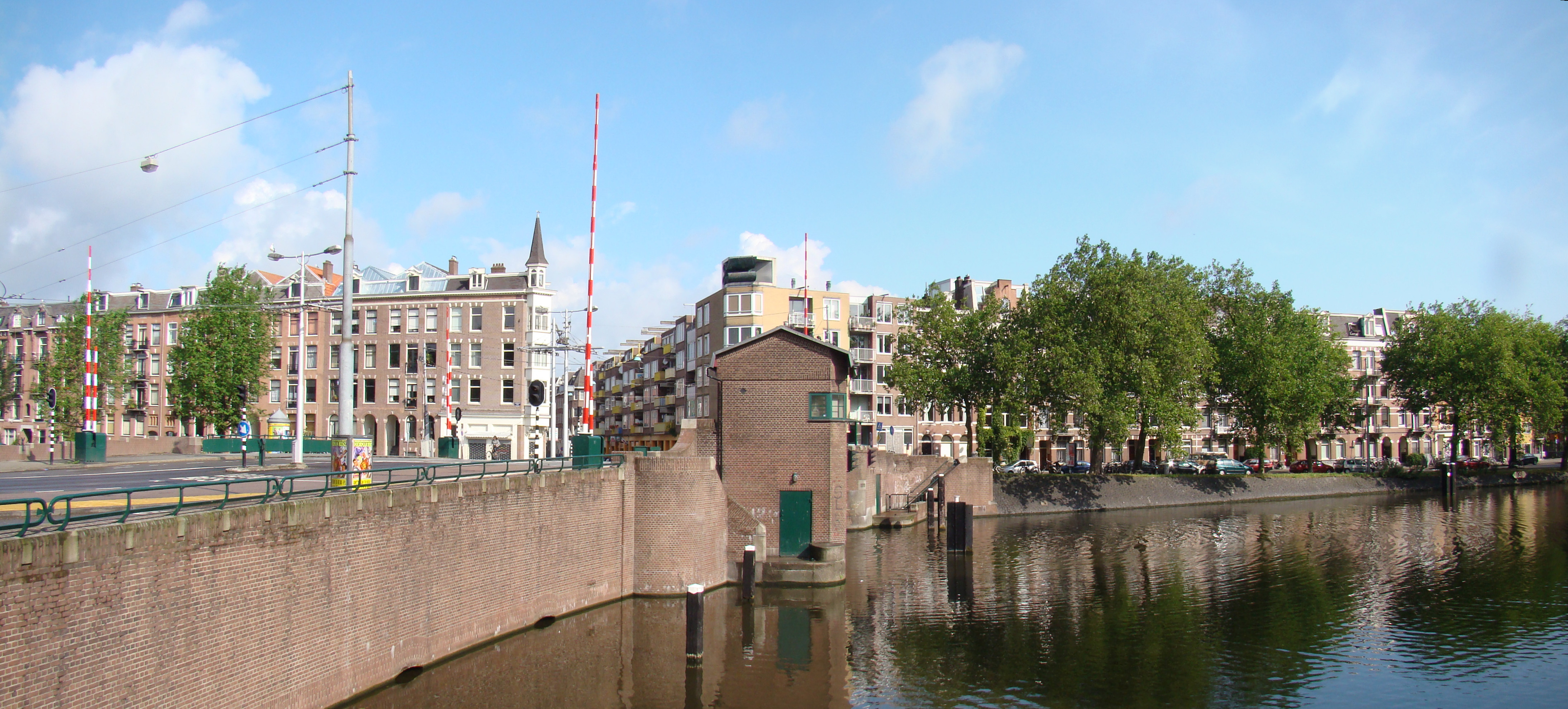 Kattenslootbridge, Staatsliedendistrict, Westerpark district, Amsterdam, Netherlands.